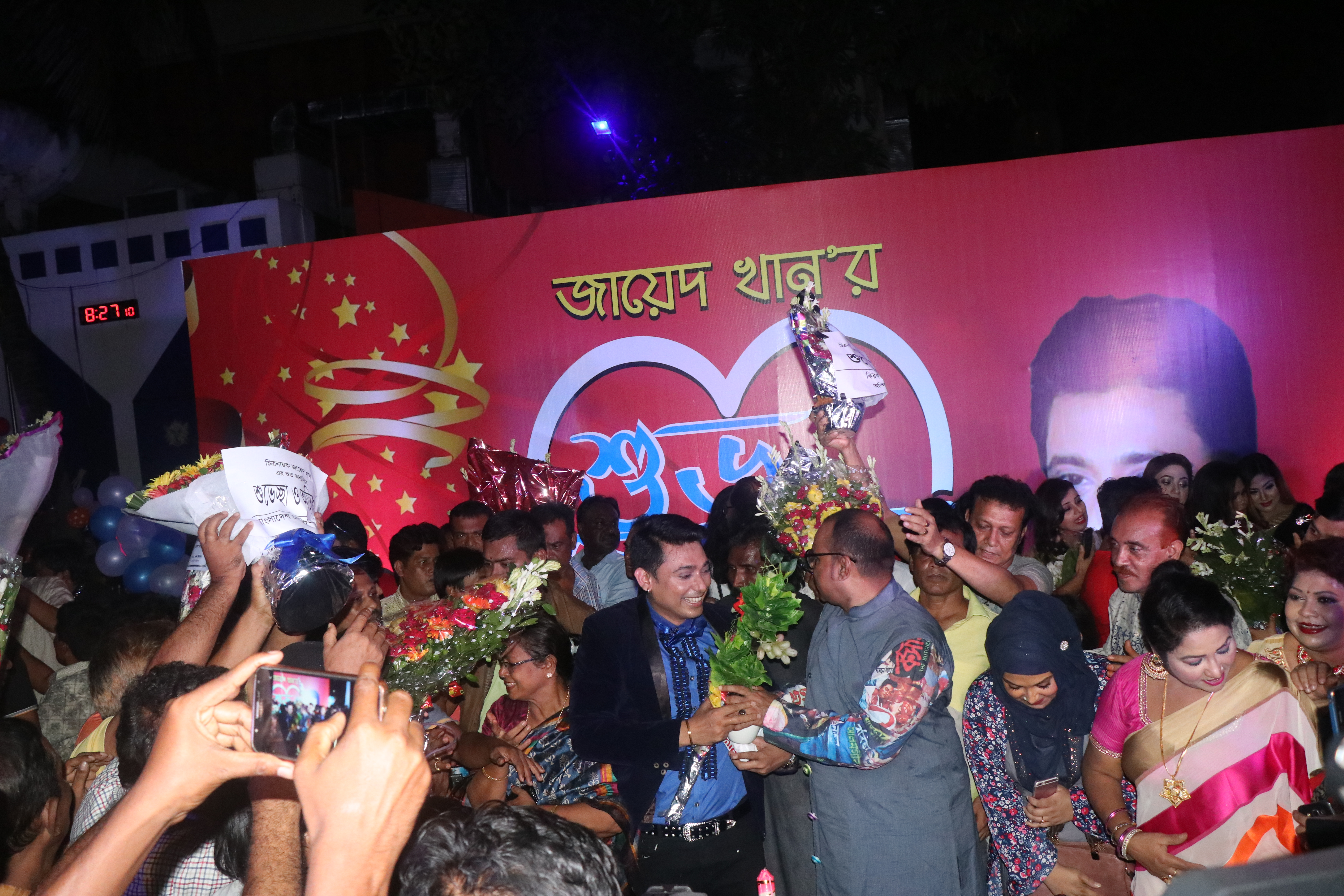 Zayed Khan birthday celebration at Bangladesh Film Development Corporation